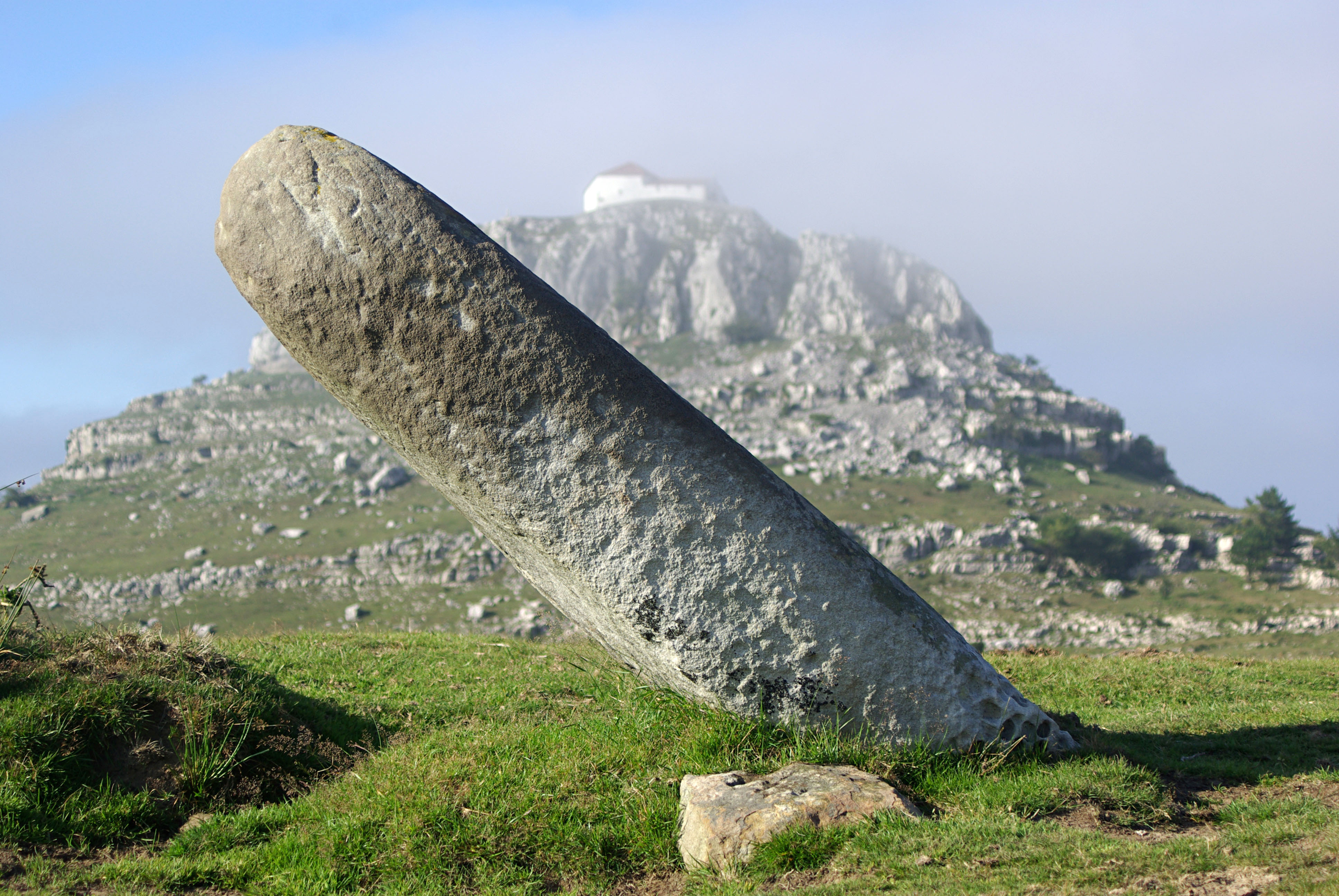 Menhir, and, in the background, Las Nieves hermitage in Guriezo (Cantabria, Spain)